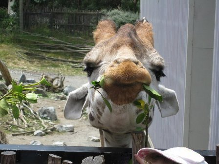 Visitors feed the giraffes at Wellington Zoo.